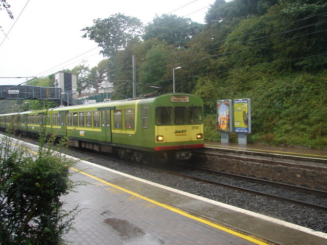 IÉ 8100 Class DART electrical multiple unit at Portmarnock.